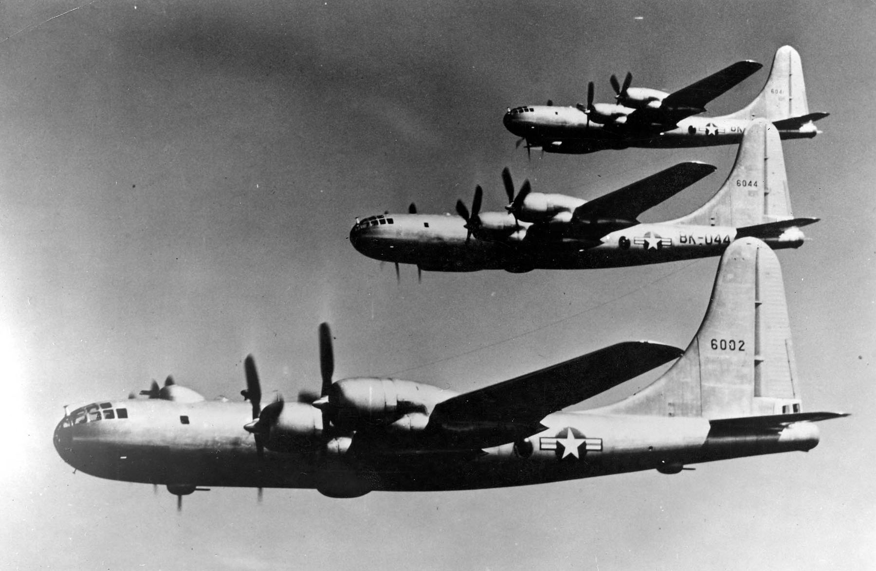 The first Boeing B-50A Superfortress 46-002 (c/n 15722), in formation with 46-044 (c/n 15764) and 46-041 (c/n 15761).